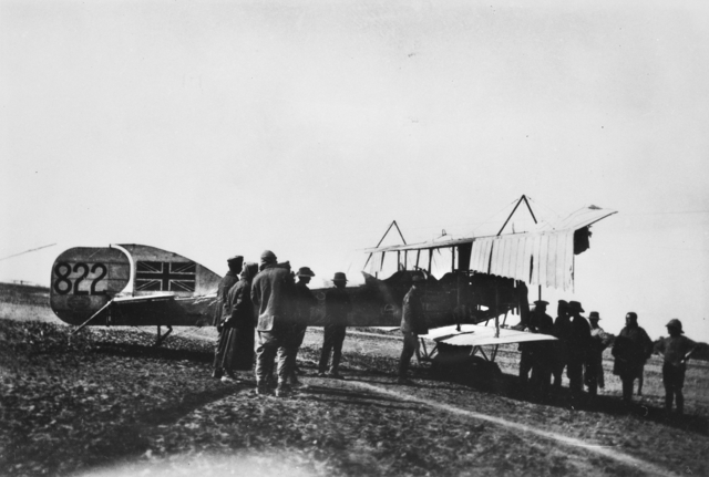 A Short 827 seaplane, Serial 822, which has been converted from seaplane to land bomber configuration, of the Australian Mesopotamian Half Flight.